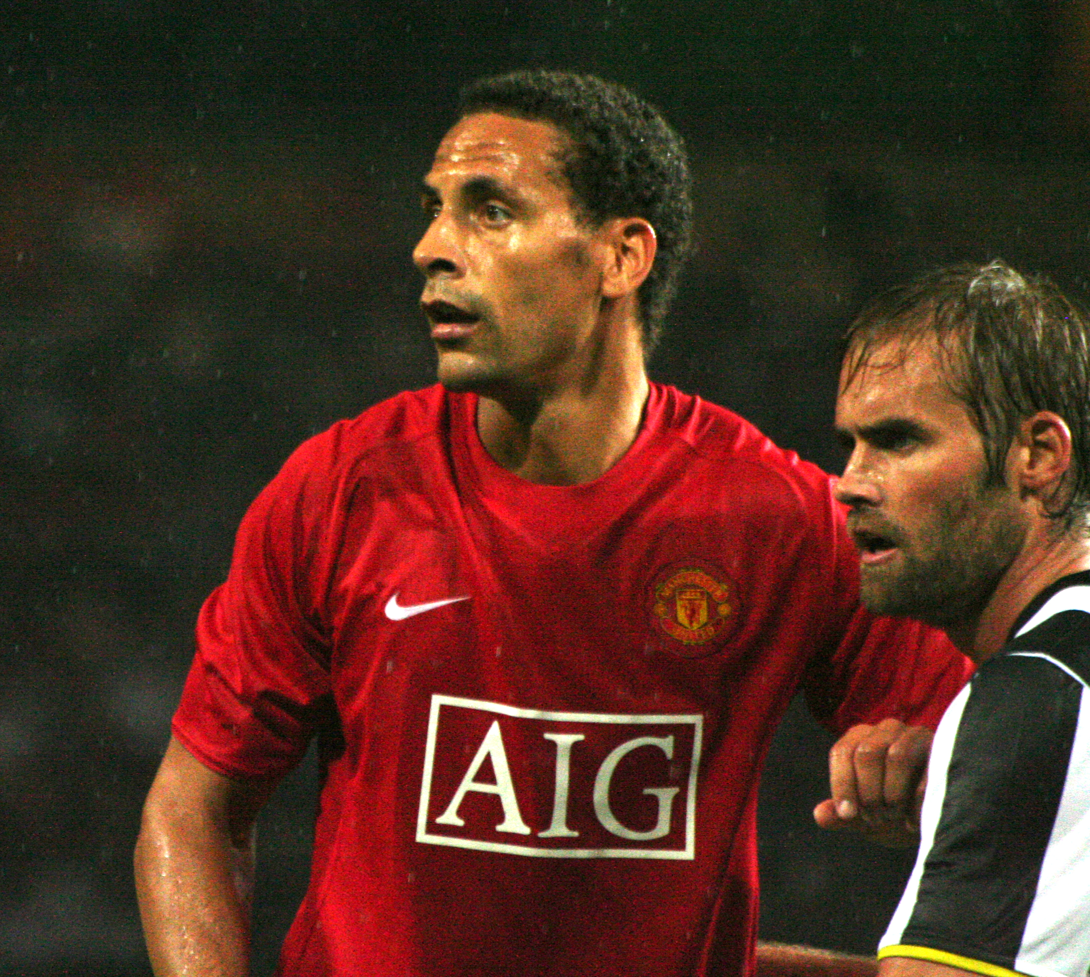 Rio Ferdinand with a Juventus player